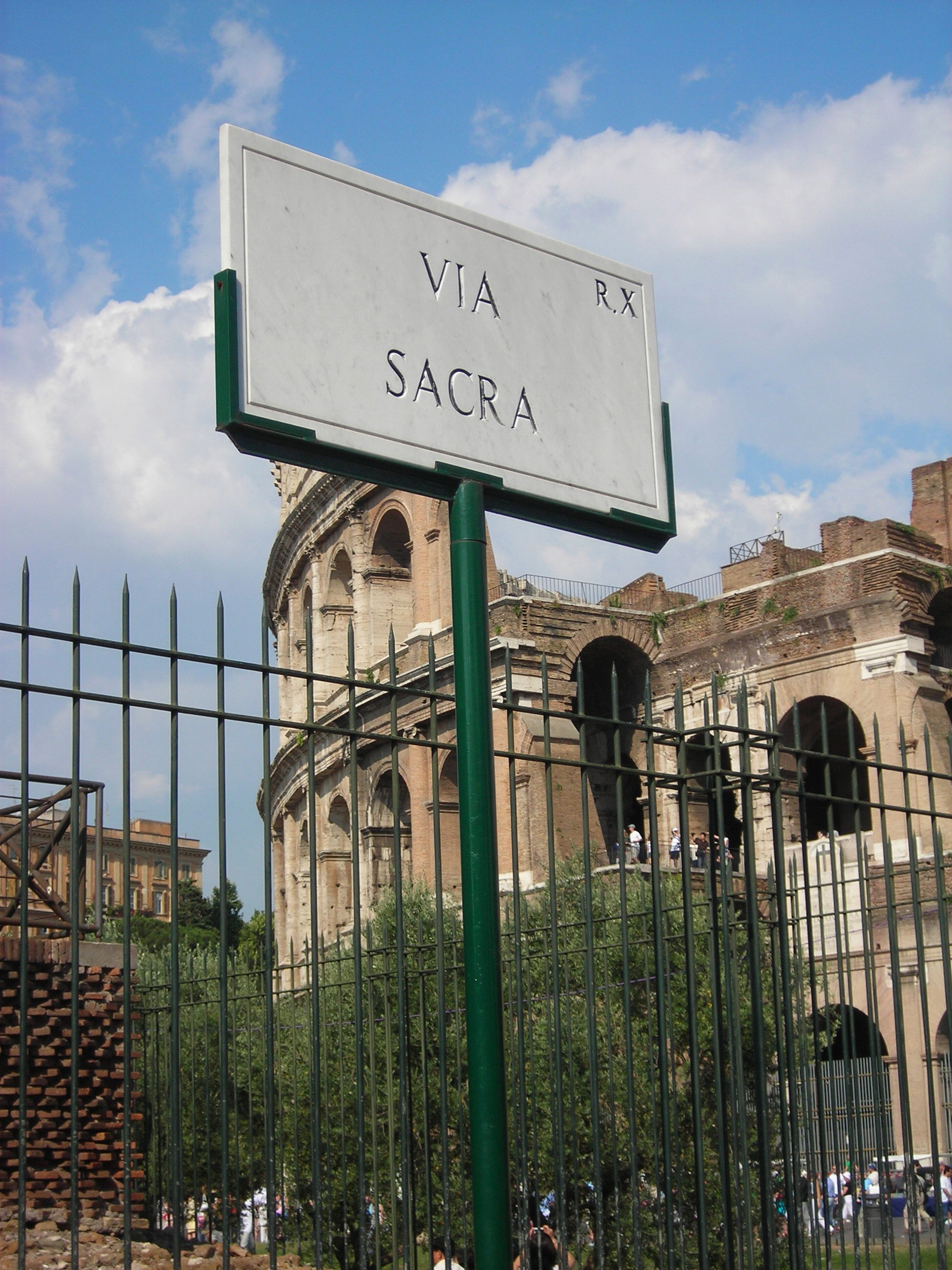 Via Sacra in Rome